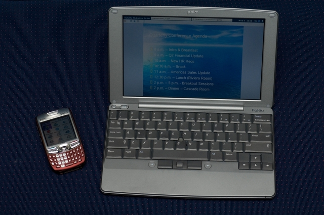 Palm Foleo (right) and a Treo smartphone